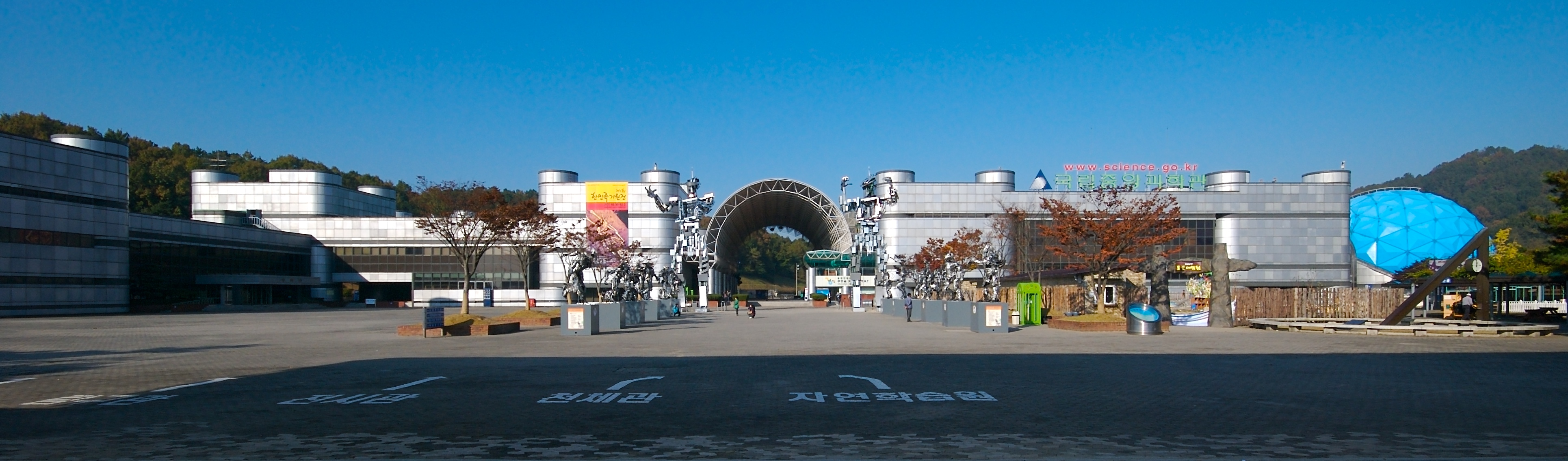 Photograph of the National Science Museum of South Korea in the city of Daejeon, South Korea. Taken from just outside the front gate.